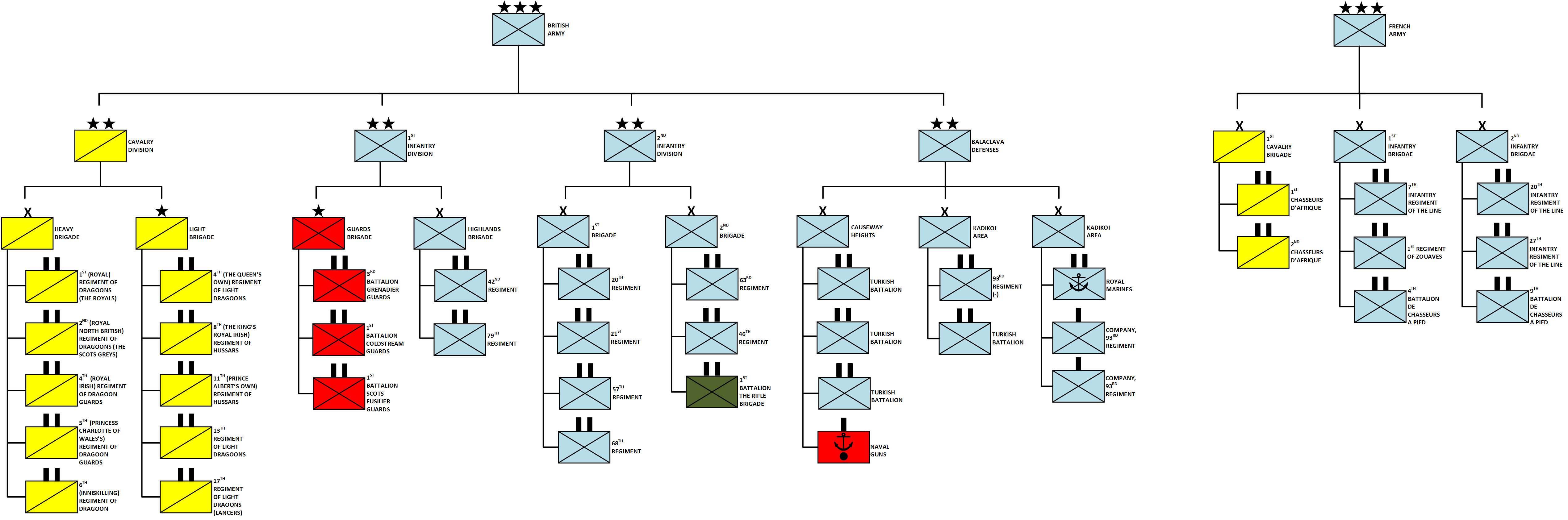 Order of battle for the Allies for the Balaclava campaign